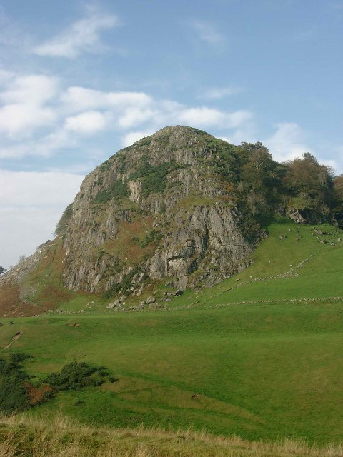 Loudoun Hill. This is one of the many volcanic plugs around Scotland. Dunbarton Rock and Edinburgh Castle Rock are two others.